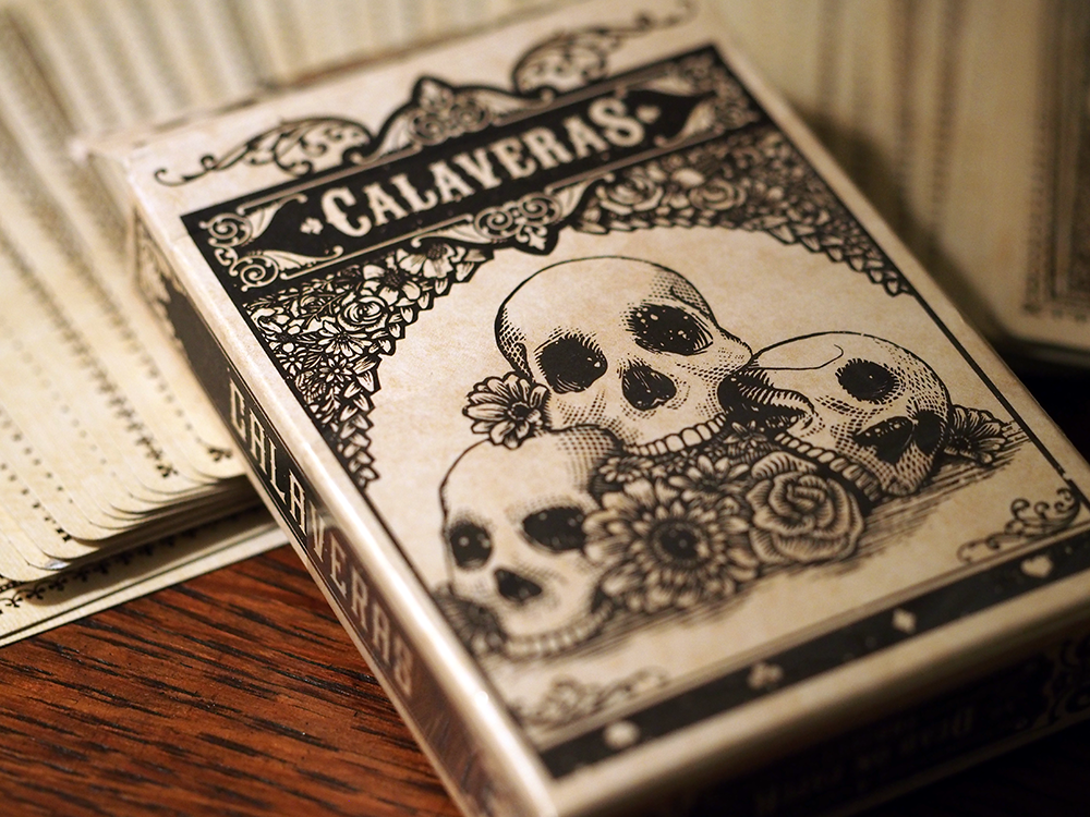 Photograph of the tuck design for Chris Ovdiyenko's Calaveras Playing Cards.